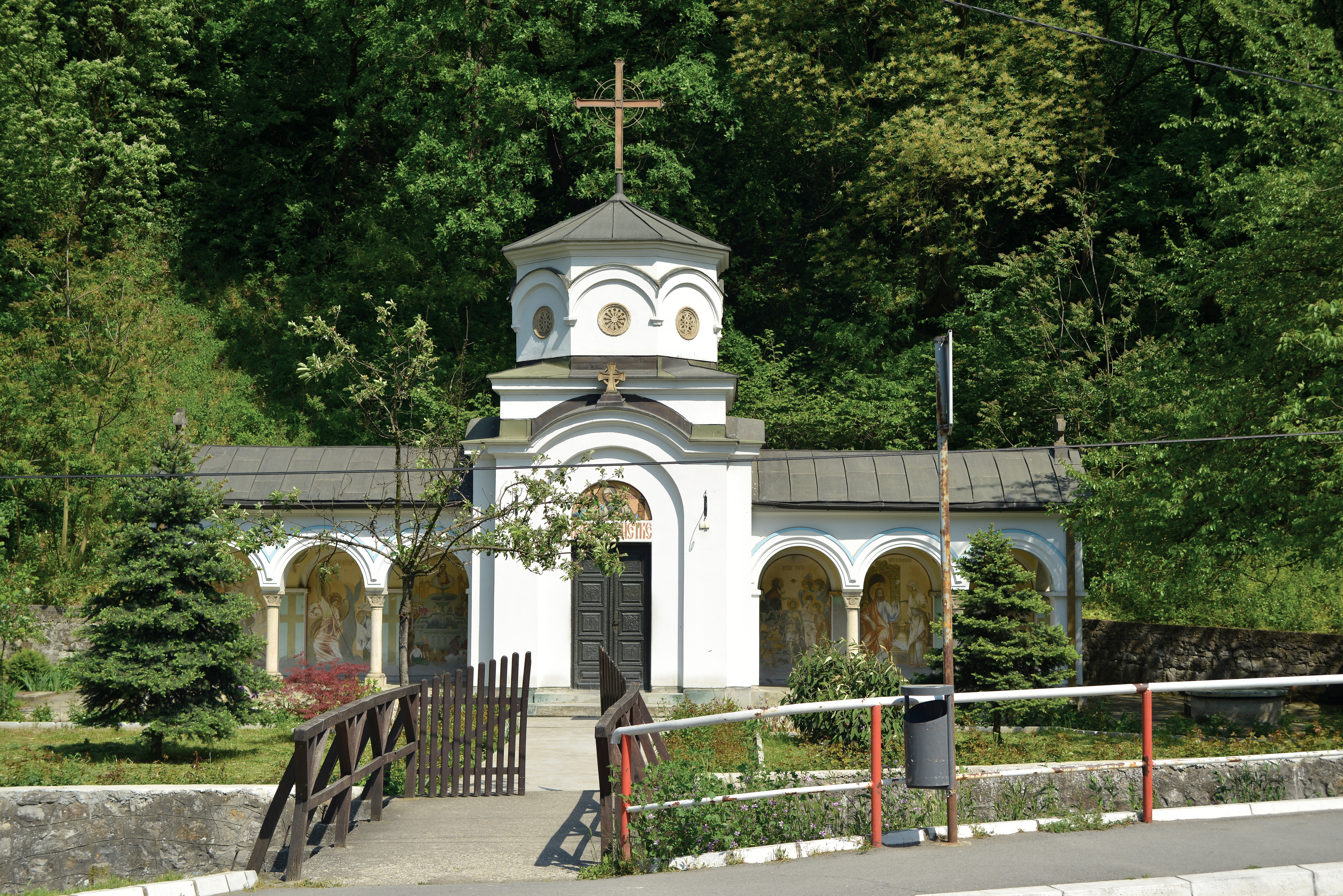 Rakovica monastery, Belgrade, Serbia - fountain of the Holy Parascheva of the Balkans, near the Monastery